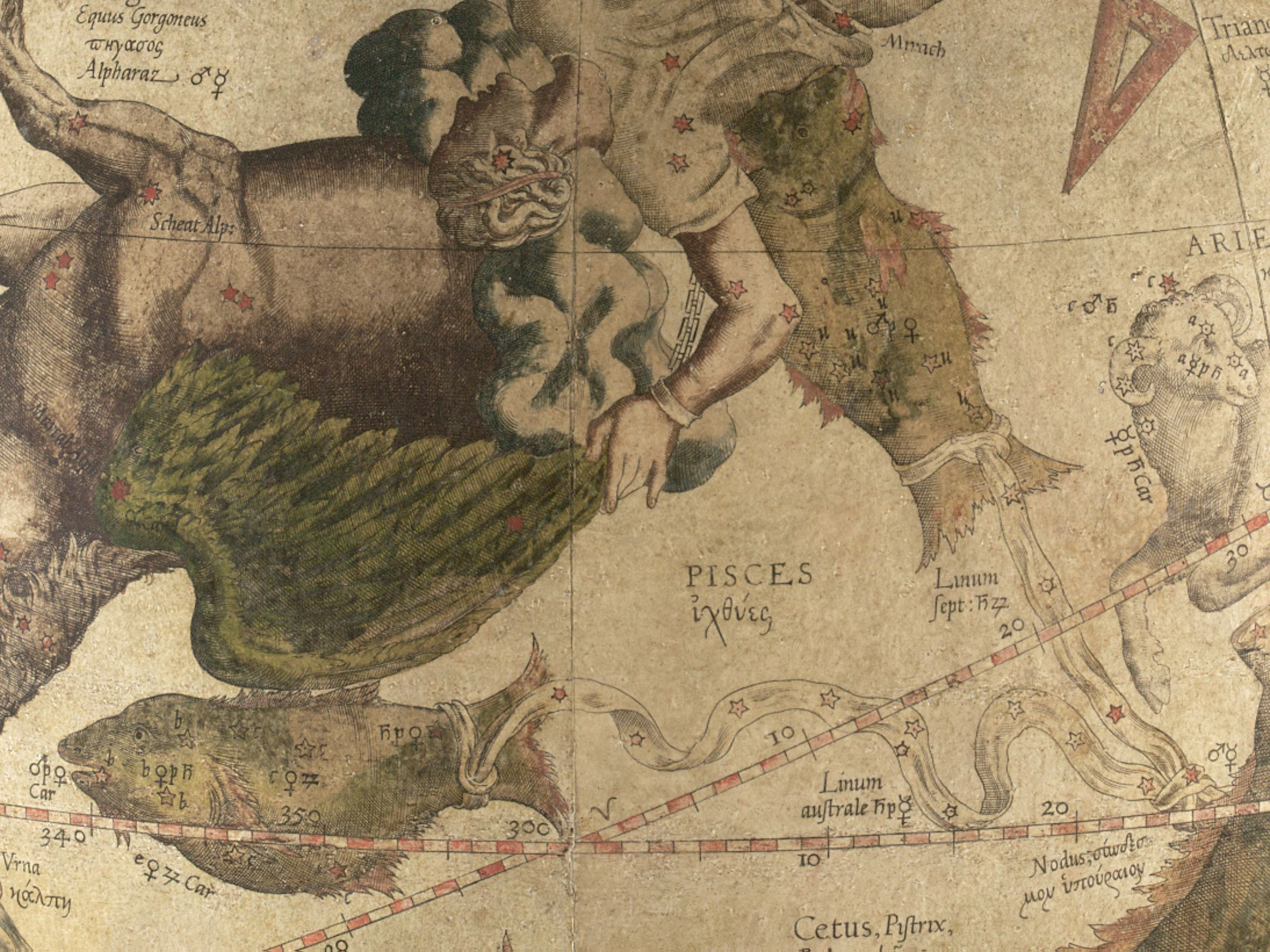 Pisces constellations from the Mercator celestial globe.